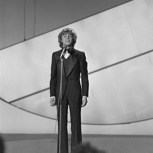 Jürgen Marcus at a rehearsal for the Eurovision Song Contest 1976.